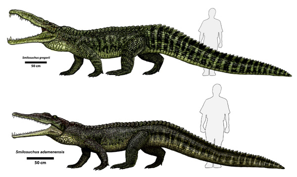 Two Smilosuchus species. Half of the image already used here, so...